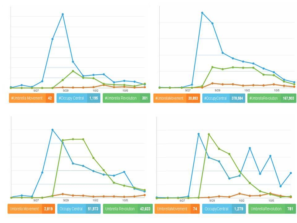 Daily Tweets circulation and comparison of Umbrella Movement (orange), Occupy Central (blau) and Umbrella Revolution (green), development 24/09 - 07/10, in 4 different spellings